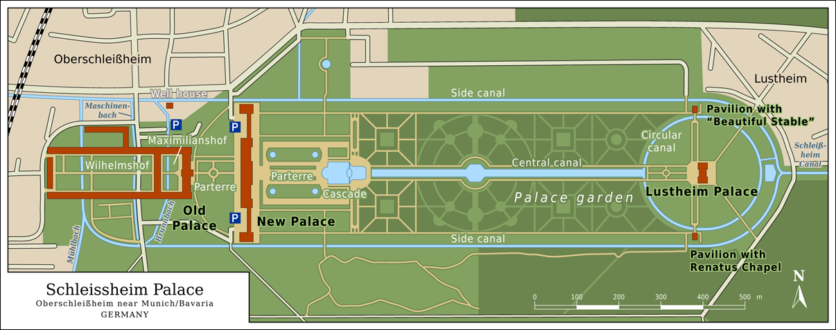 Map of Schleissheim Palace, Oberschleißheim near Munich, Germany (EN)